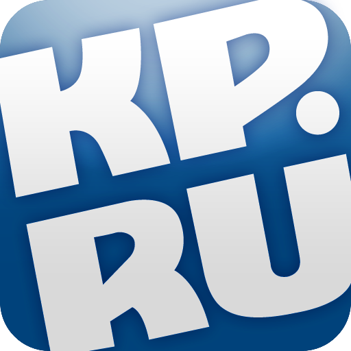 The icon for Komsomolskaya Pravda's iPhone app.